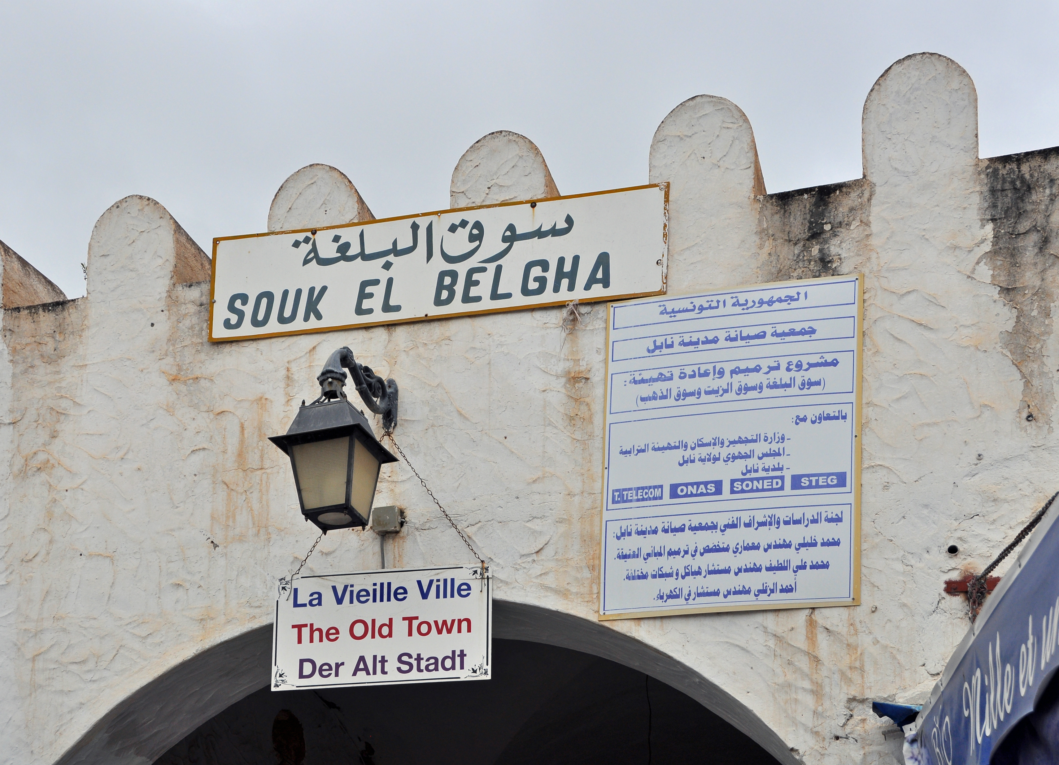 Nabeul (Tunisia): entrance of the souk (detail)